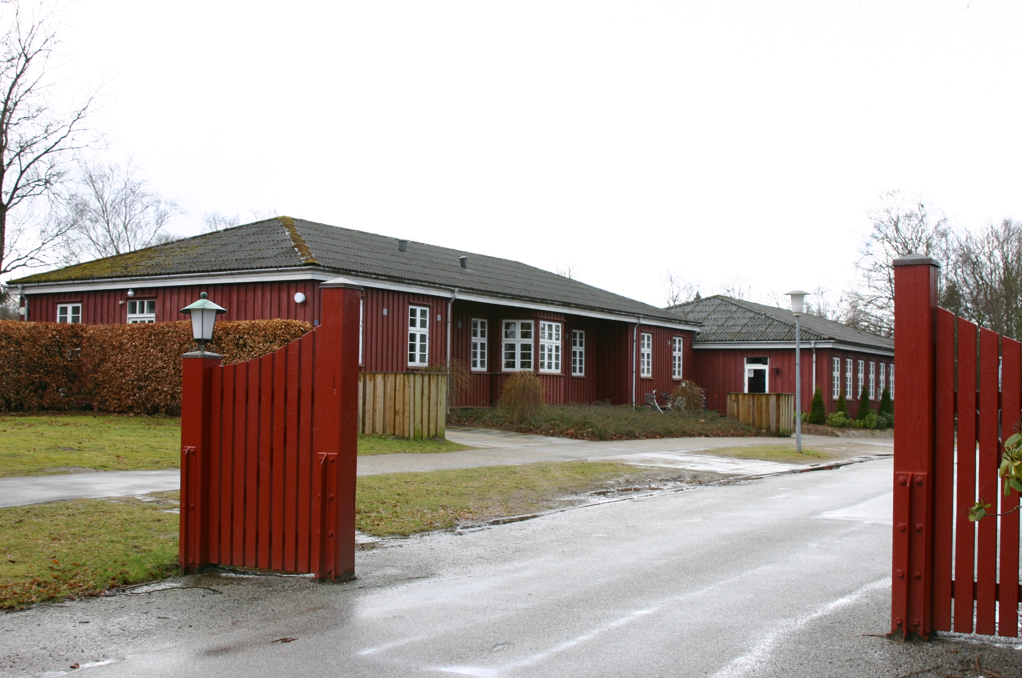 Main gate of the old POW Camp at Hald Ege, Viborg, Denmark. Hovedindgang, Folkekuren, Hald Ege, Viborg, Danmark.